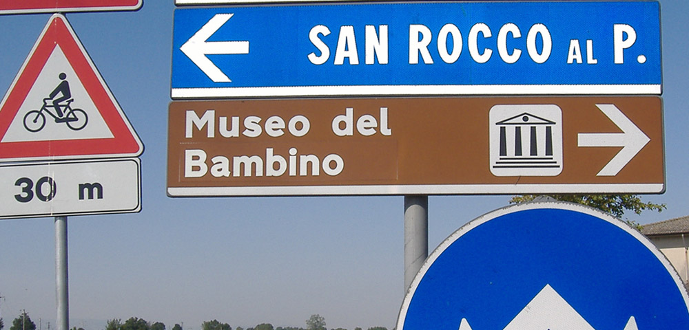 The label of Baby-Museum, in Santo Stefano Lodigiano, Italy.